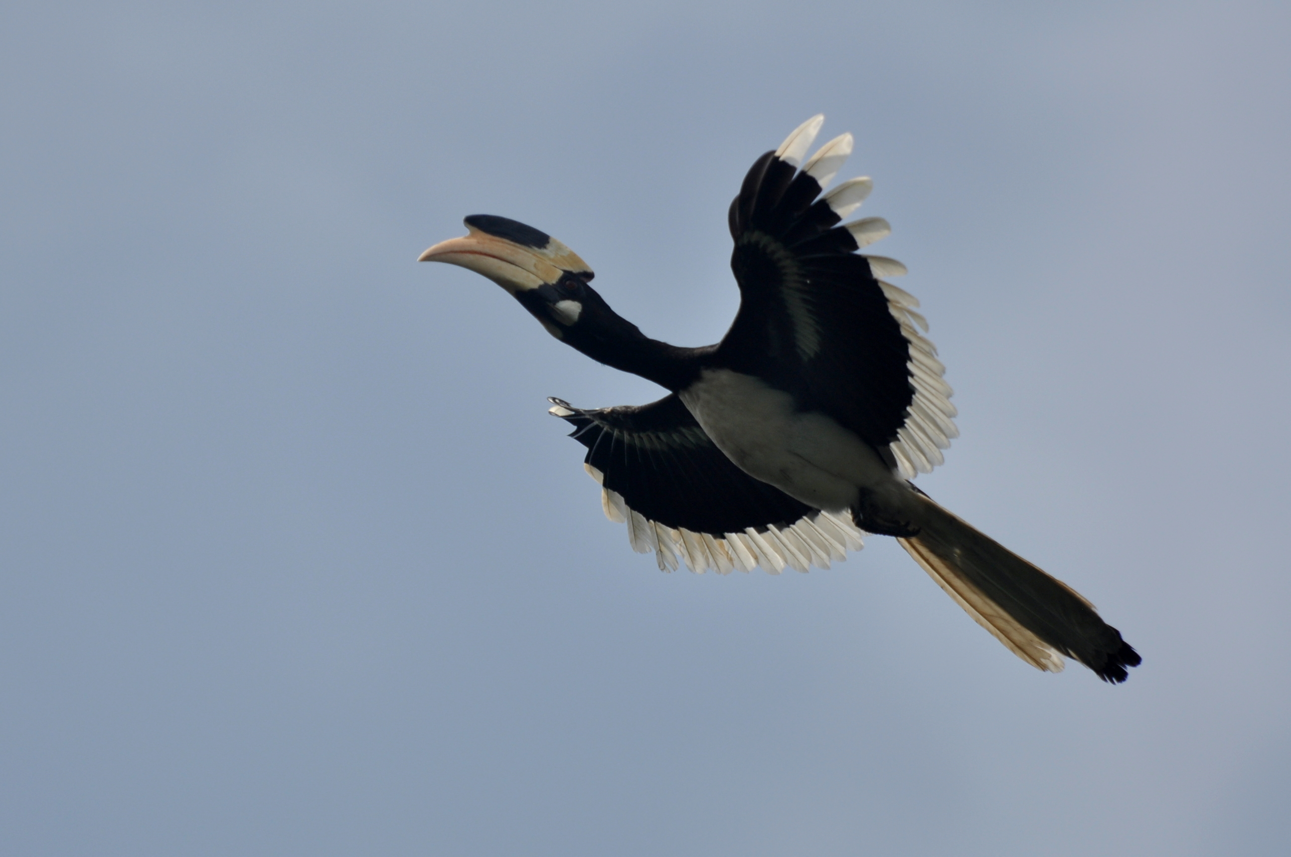 Malabar Pied Hornbill near Dandeli in Karnataka, India